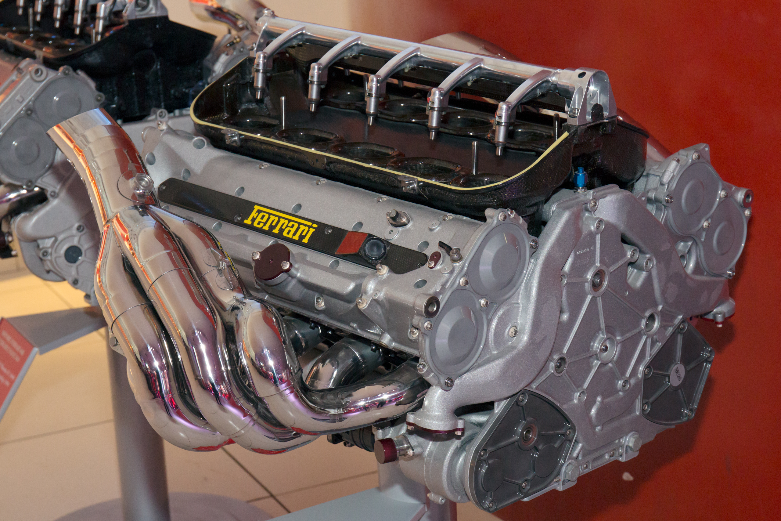 Ferrari Tipo 049 engine (2000) of the Ferrari F1-2000